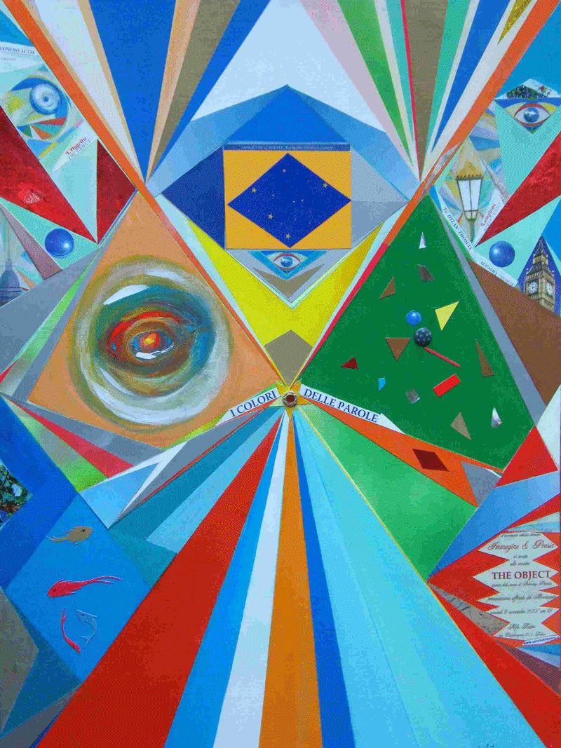 This poster was created by Gianpiero Actis, Torino, Italy, for the 2008 exhibition of IMMAGINE&POESIA